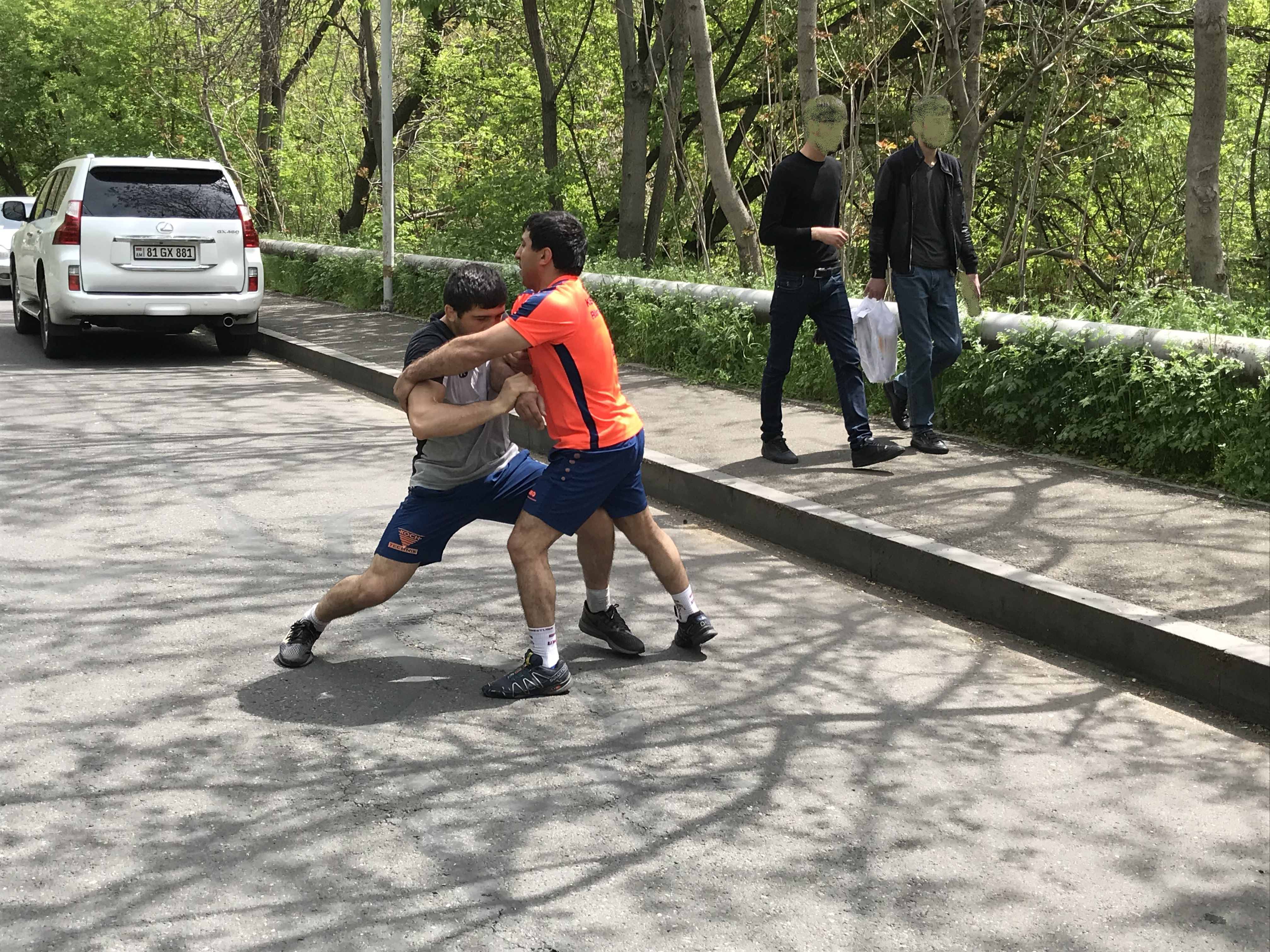 Roman Amiyan and Malkhas Amiyan in The Open air gym of Hrazdan gorge